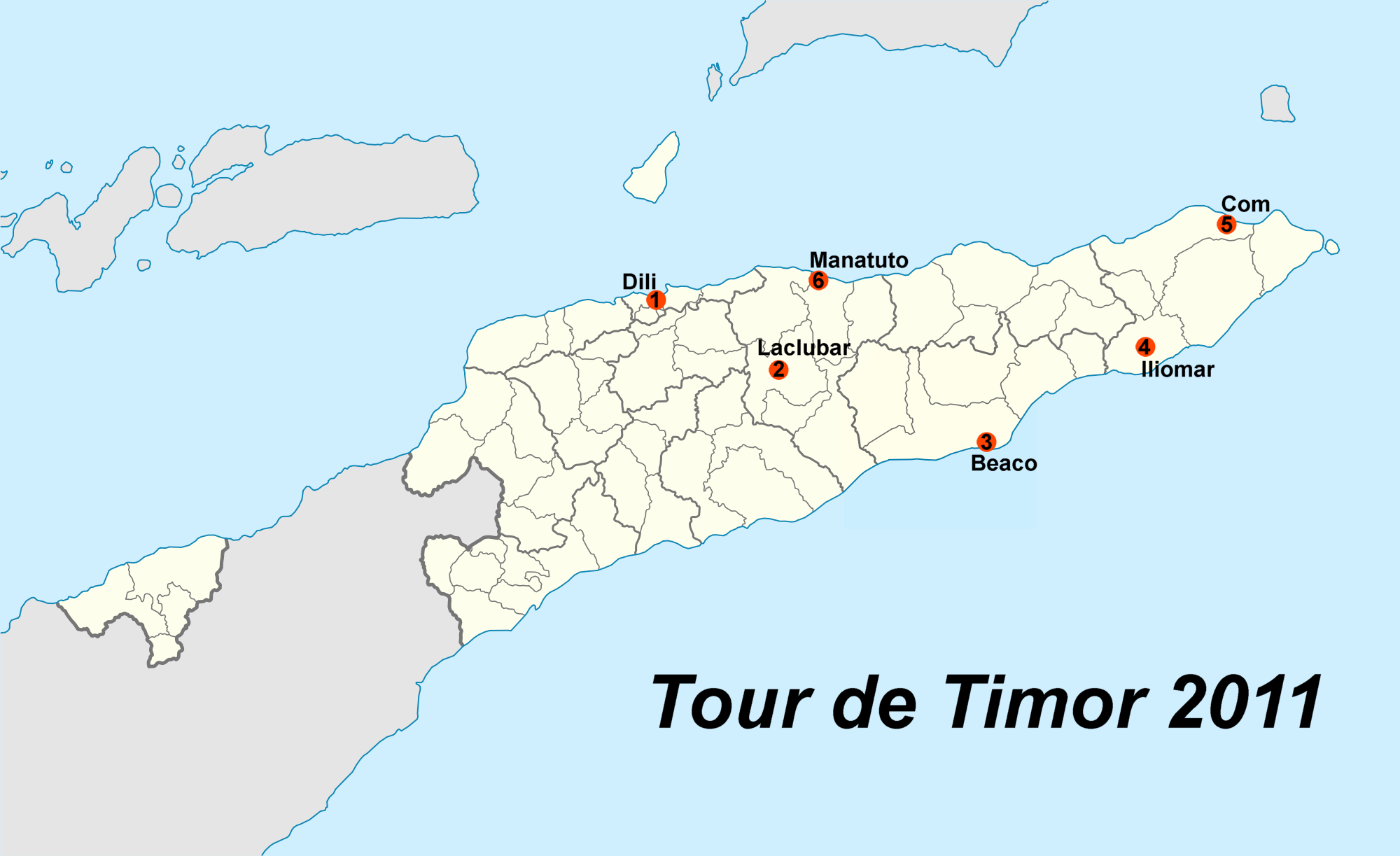 Stops of the Tour de Timor 2011